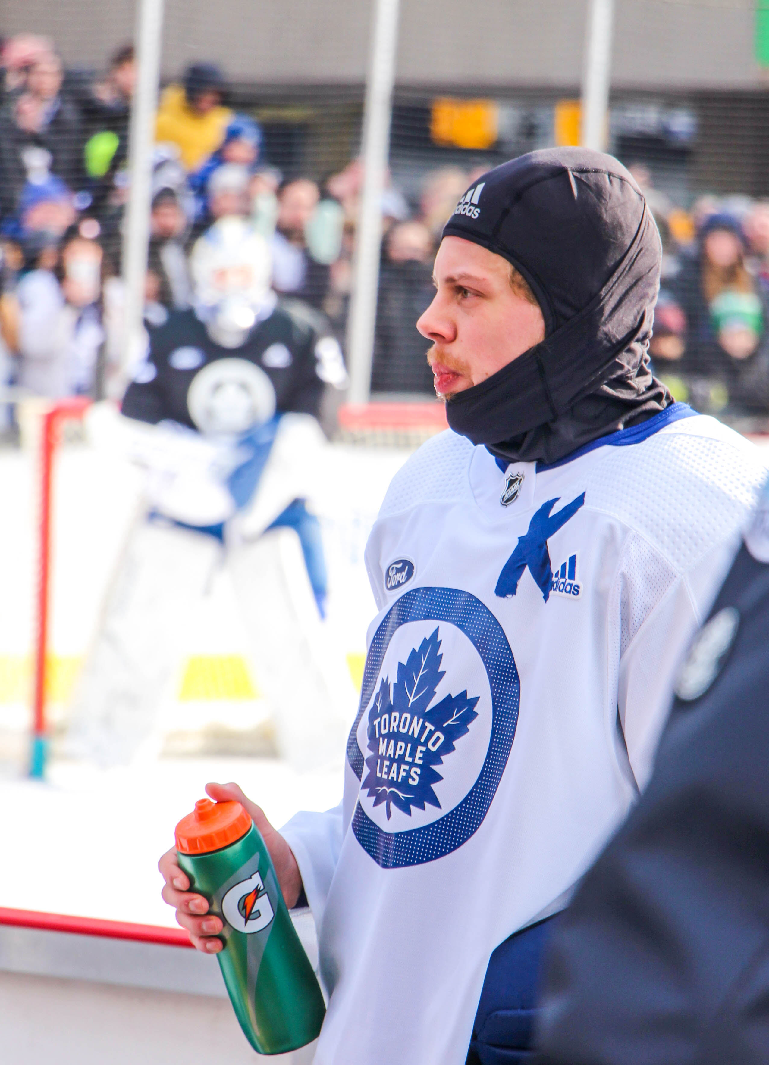 The Kaptain at the Toronto Maple Leafs outdoor practice.